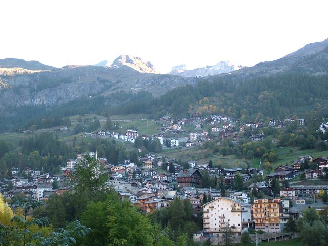 Overview of Valtournenche (Aosta Valley, Italy)